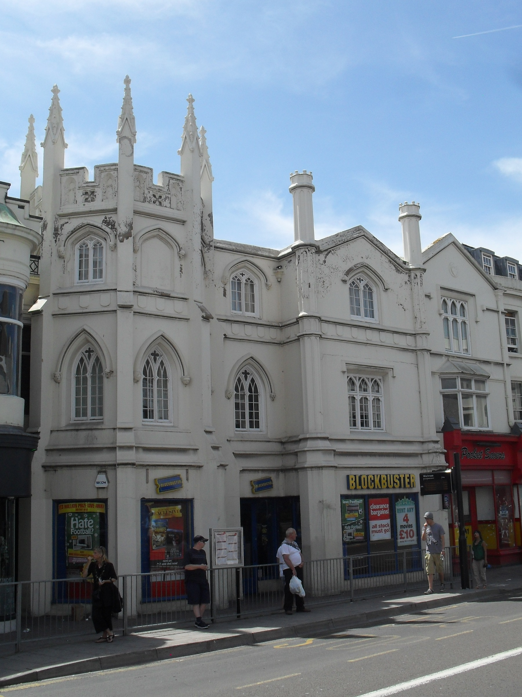 Gothic House, Western Road, Brighton, City of Brighton and Hove, East Sussex. Built in 1822–25 by Amon Wilds and Charles Busby. An unusual example of the Gothic style on a secular building in Brighton. Listed at Grade II by English Heritage (IoE Code 481446)